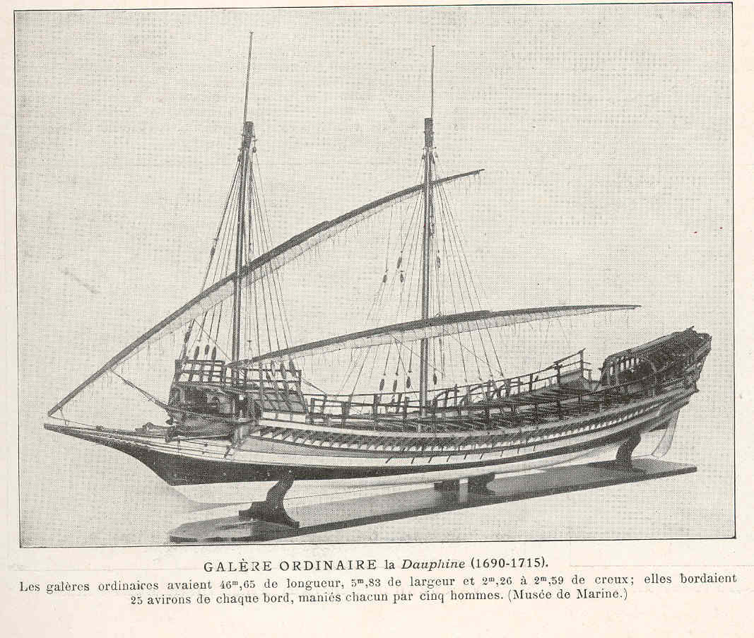 Les galeres ordinaires avaient 40m,65 de longueur, 5m,83 de largeur et 2m,26 a 2m,59 de creux; elles bordaient 25 avirons de chaque bord, manies chacun par cinq hommes (Musee de Marine Subject: Galleys, Dauphine (Ship) Tag: Vessels